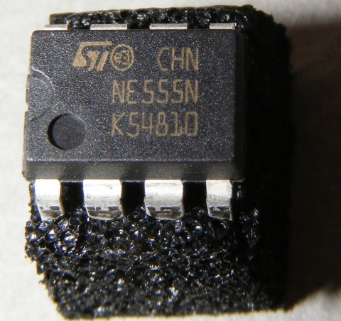 Free Photos – NE 555 Timer IC – integrated circuit (chip) stock photos / NE555 in dual-in-line package More photos and details about possible copyright or licensing restrictions here: Full Size Up to 3072 x 2304 pixels Information Regarding Copyright